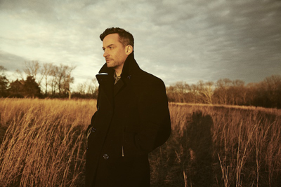 New York, 2013, by Andrew de Francesco